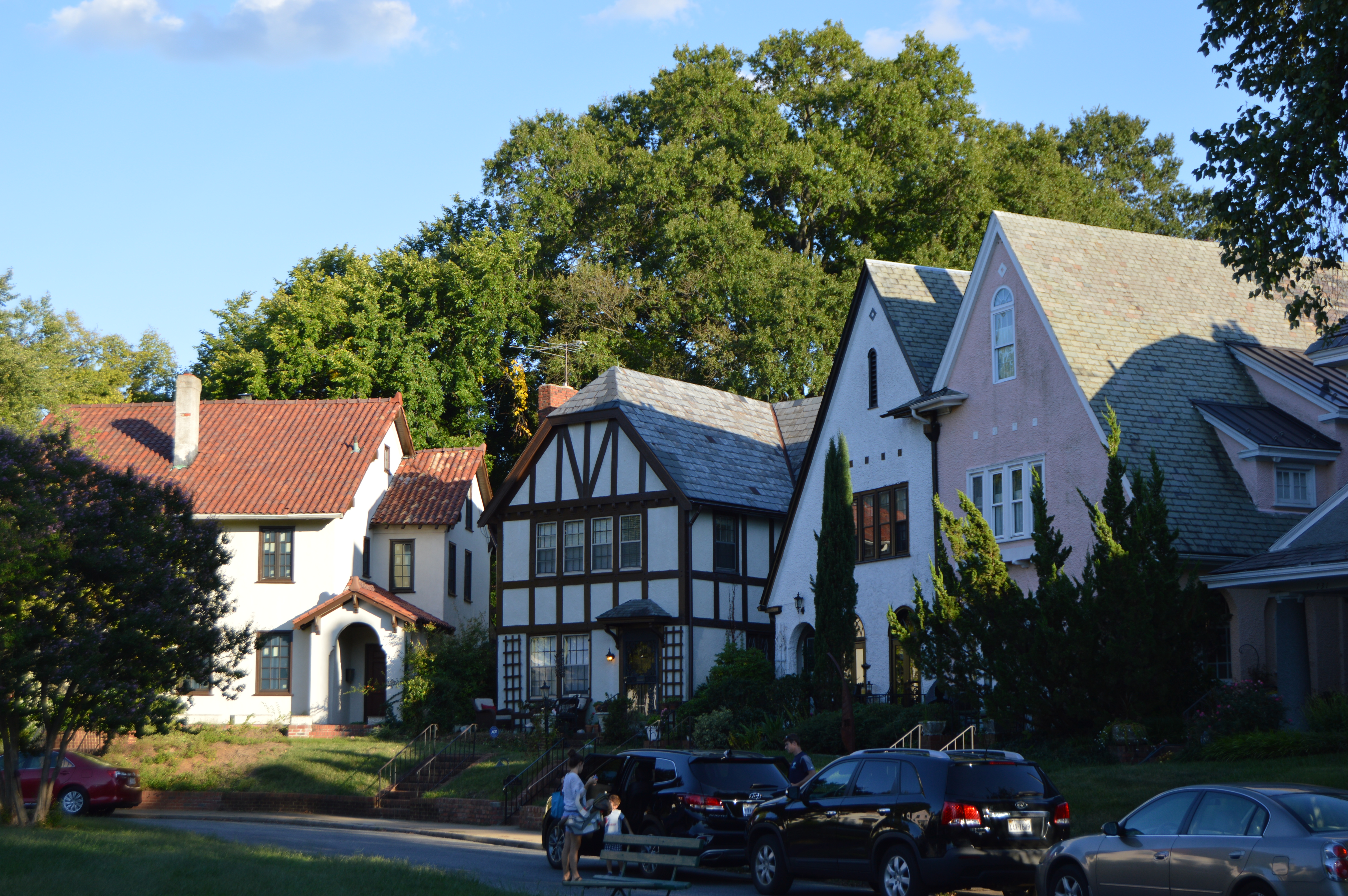 Houses on the southern side of Byrd Park Court in Richmond, Virginia, United States. The whole court is listed on the National Register of Historic Places as a historic district.